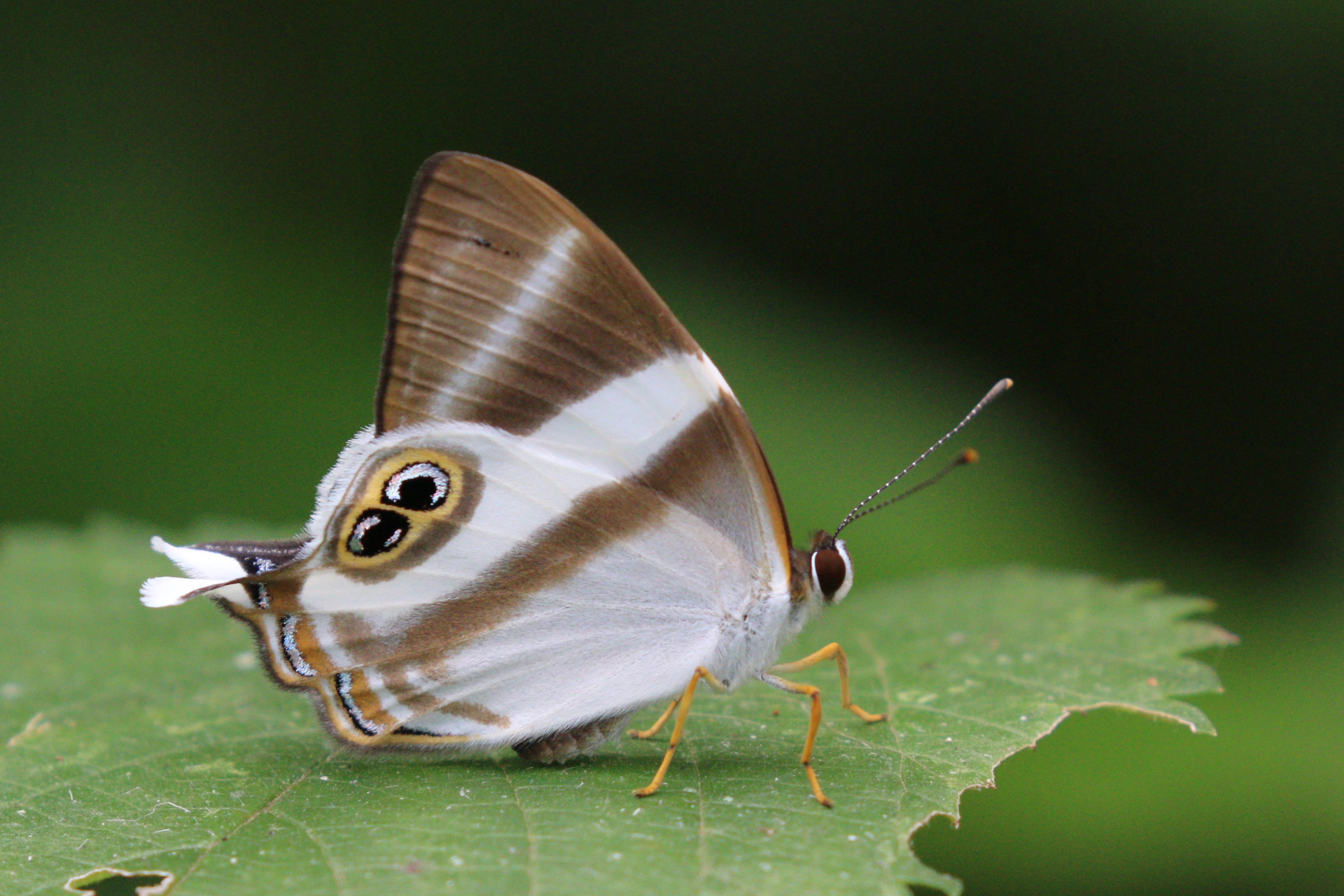 Neave's banded judy (Abisara neavei neavei), Kibale Forest, Uganda